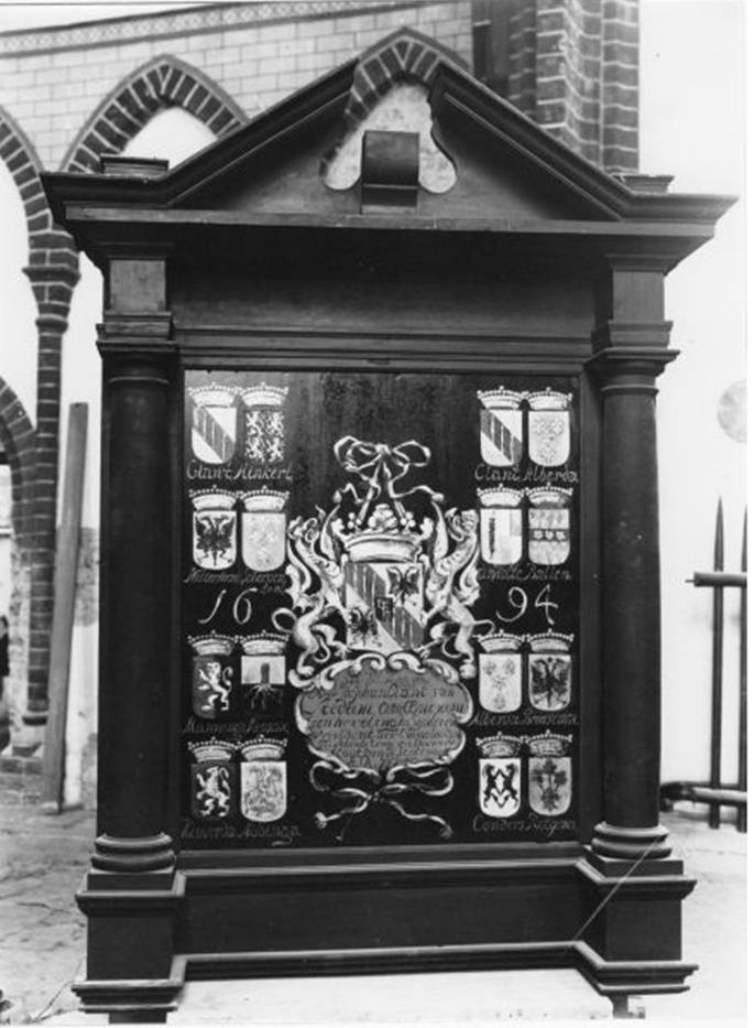 Hatchment Johan Clant